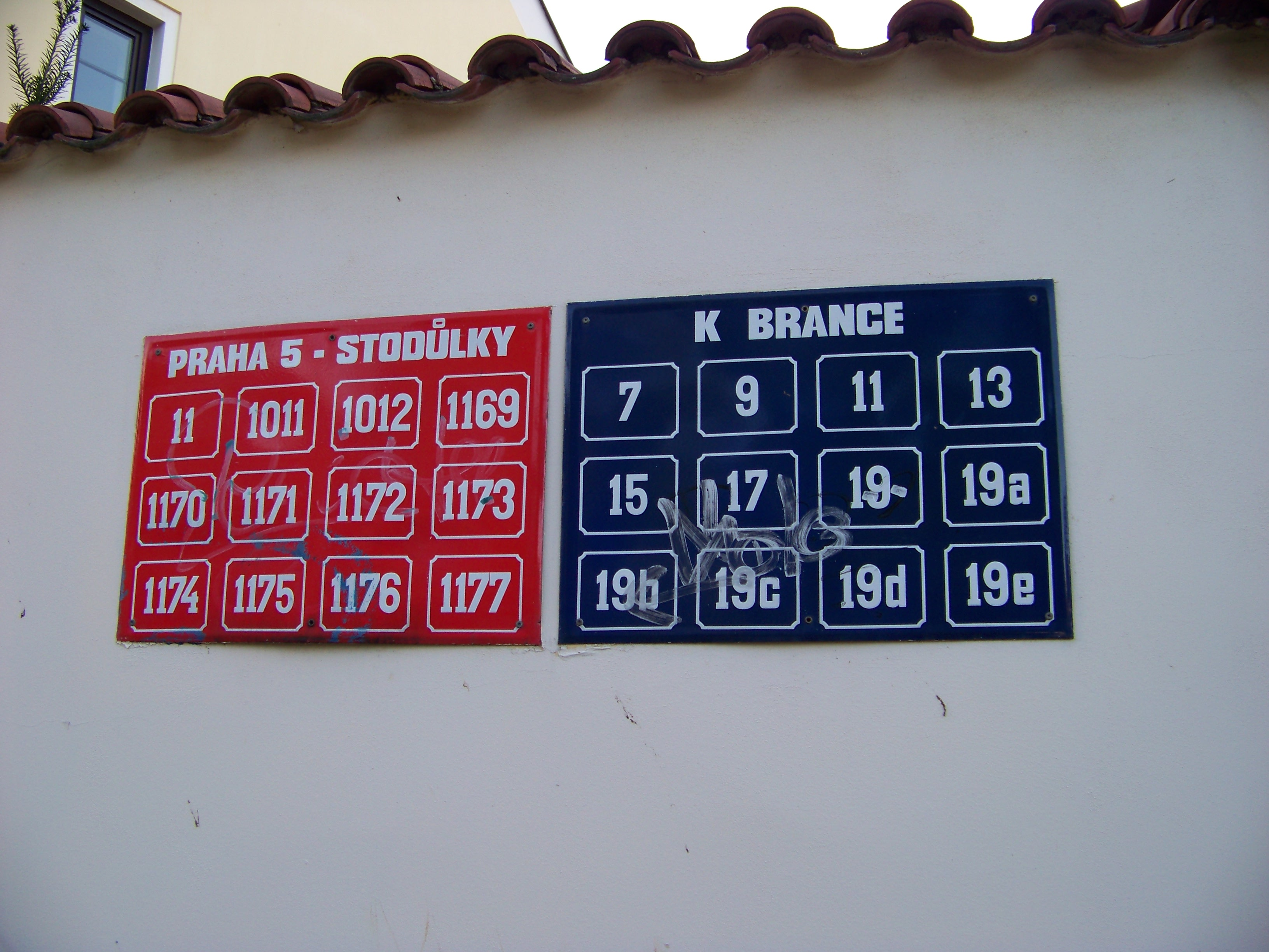 Prague-Stodůlky, the Czech Republic. K Brance street, house numbers.